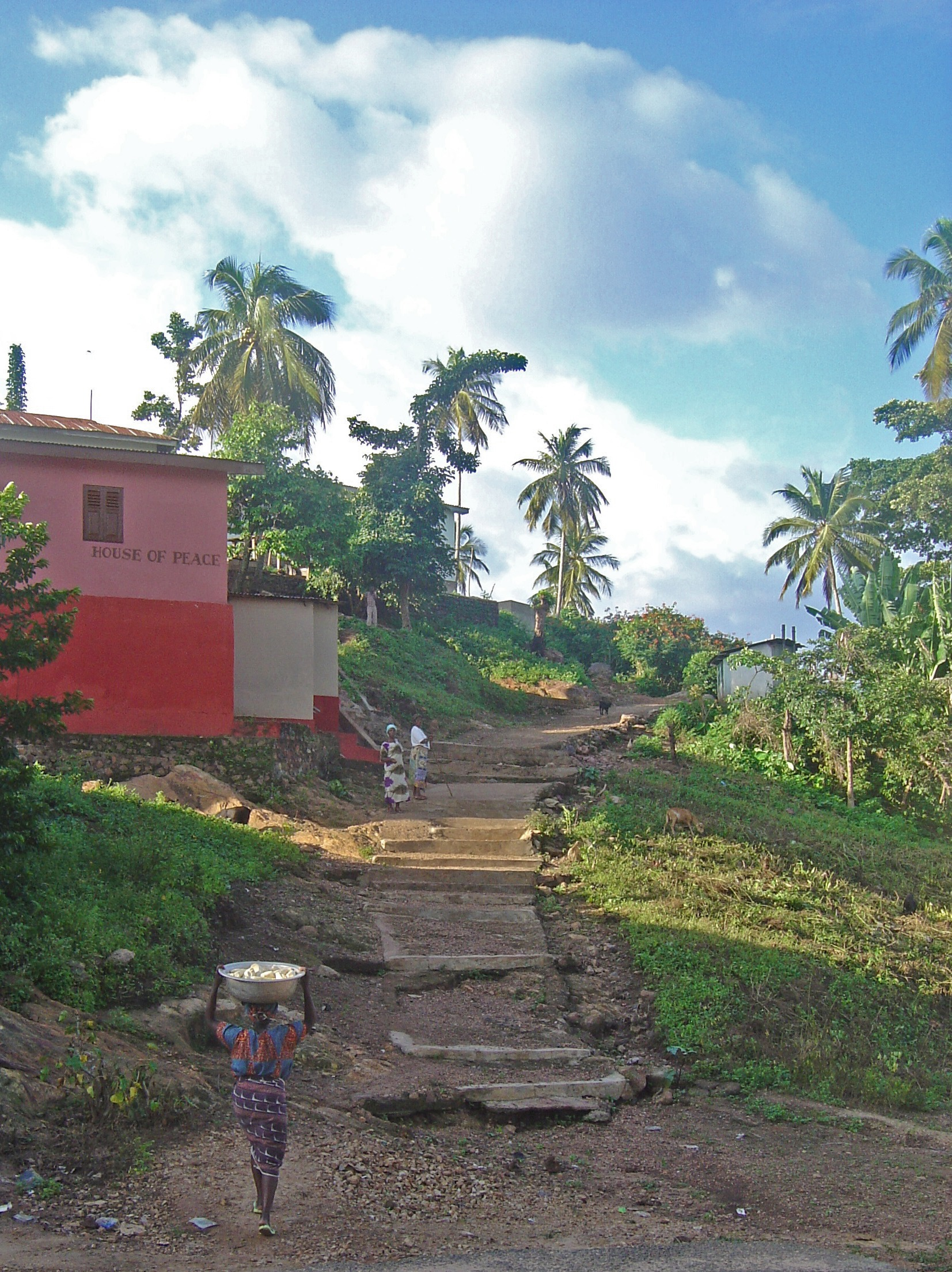 Akpafu-Todzi, a village in the mountaineous Hohoe District, Volta Region, Ghana.